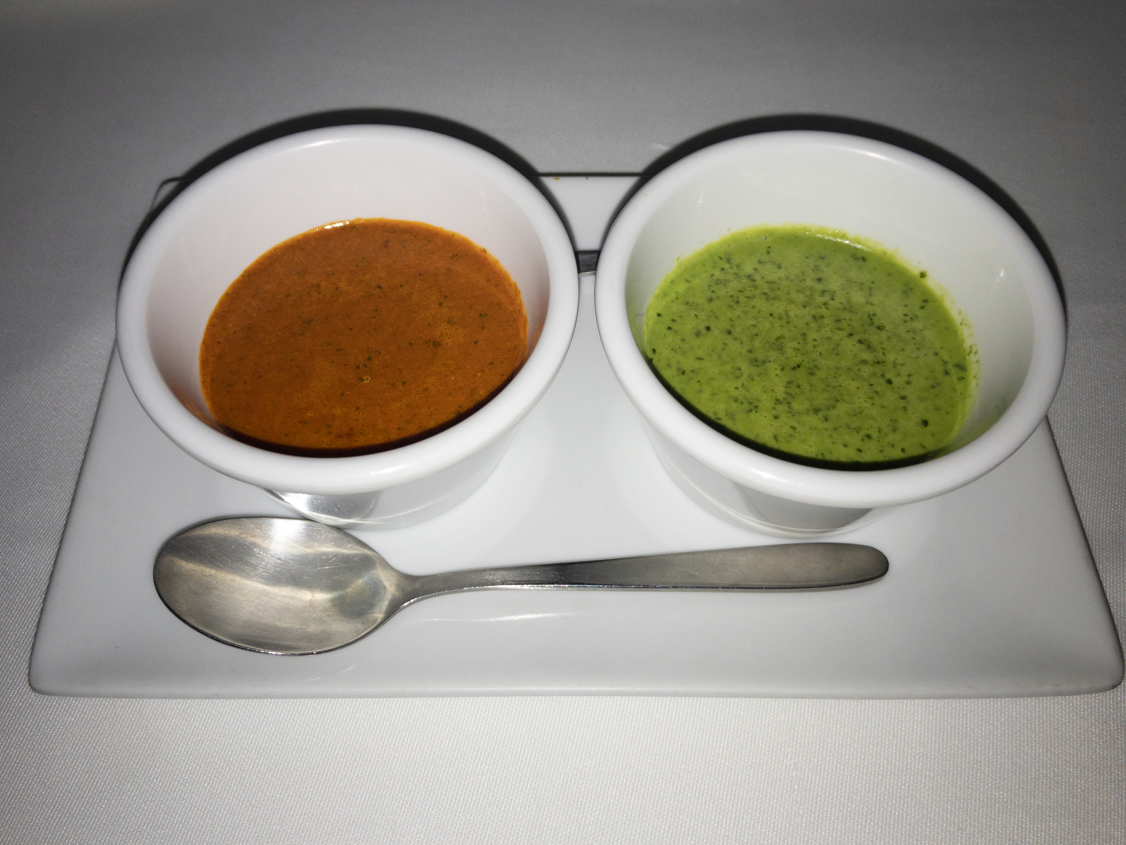 Mojo verde and mojo rojo dips from the Canary Islands, Spain